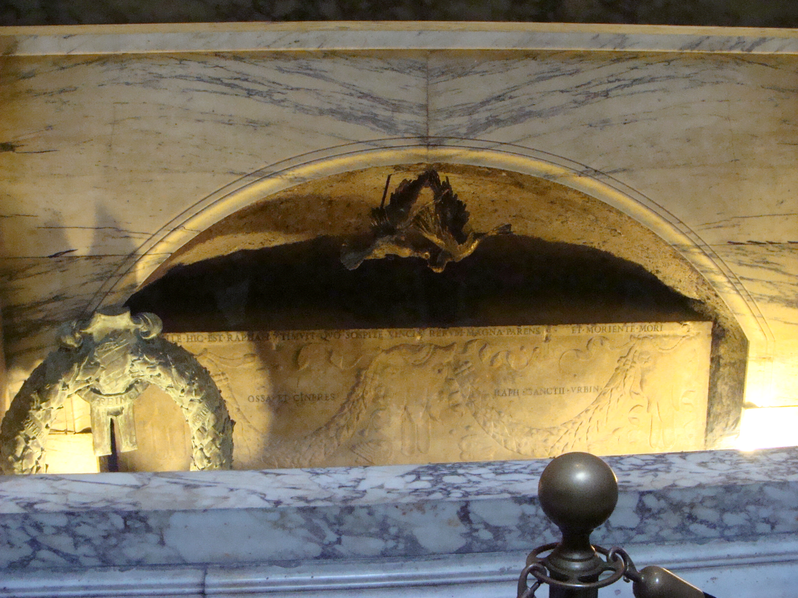 Raphaels grave in Pantheon, Rome